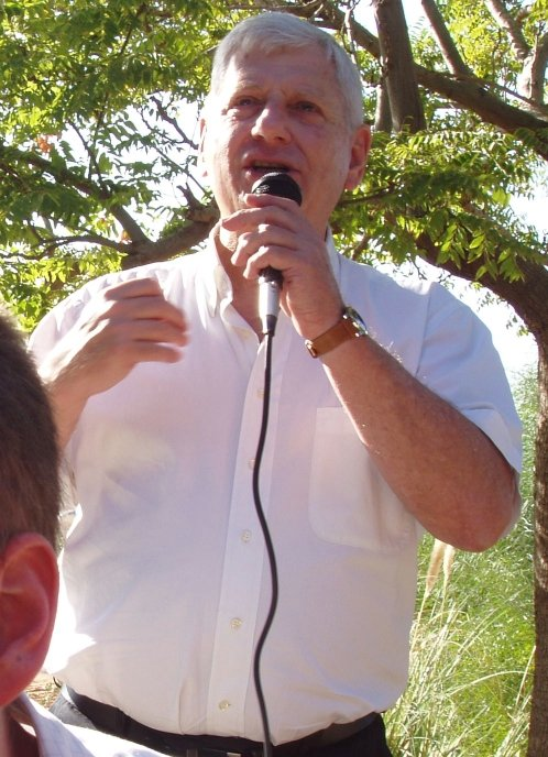 the mayor of rehovot, shooki forrer